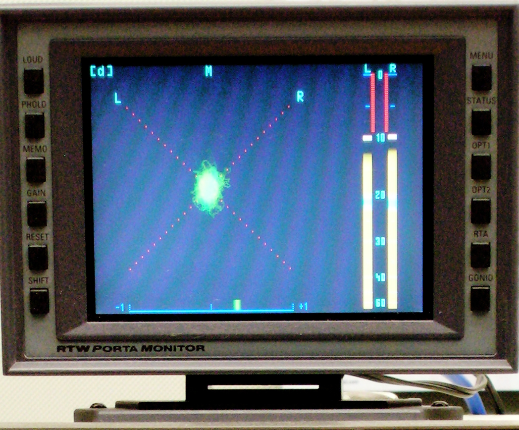 audio goniometer